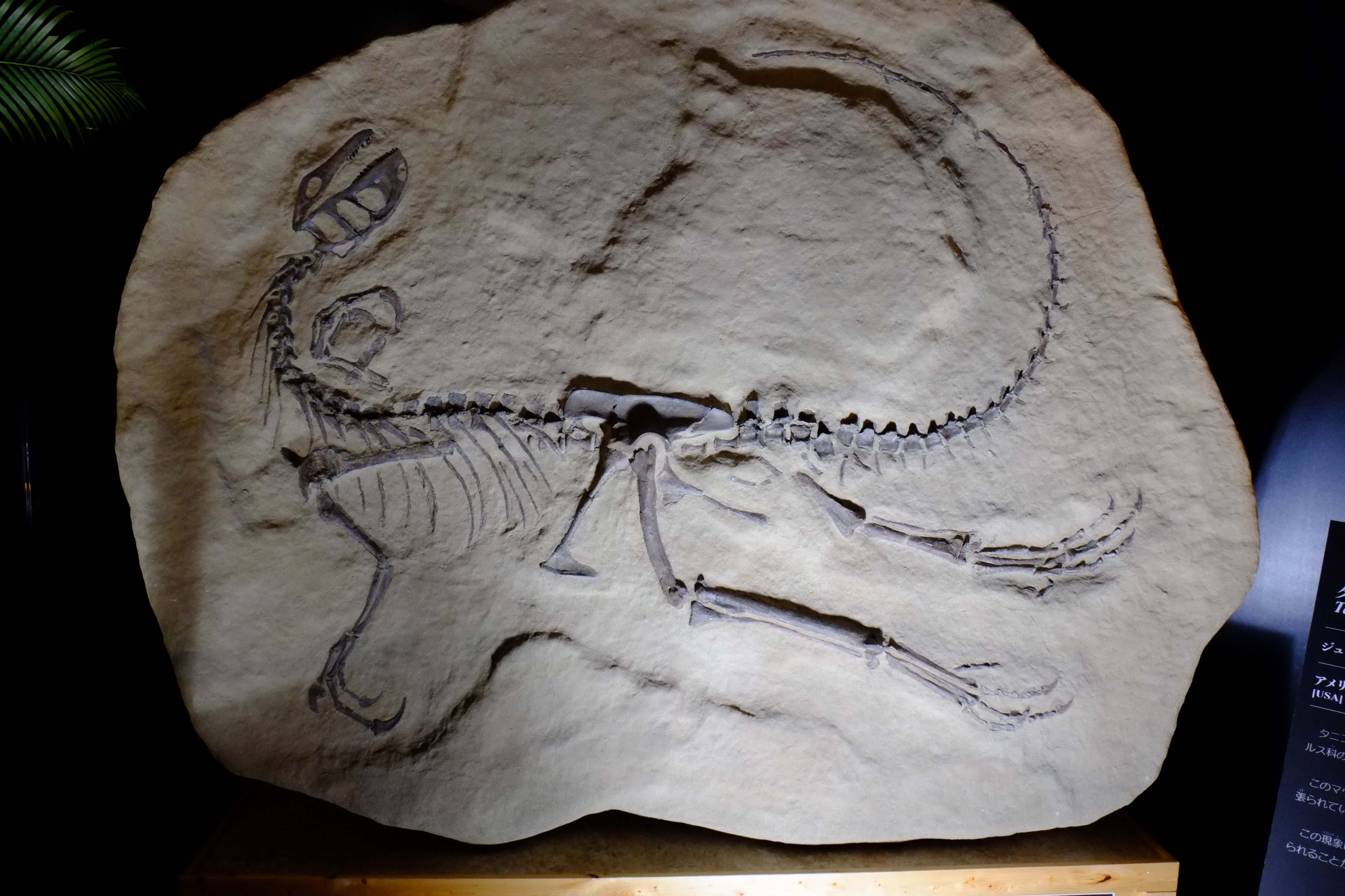 獣脚類の首が引っ張られるような姿で化石になるのは死後硬直の為。